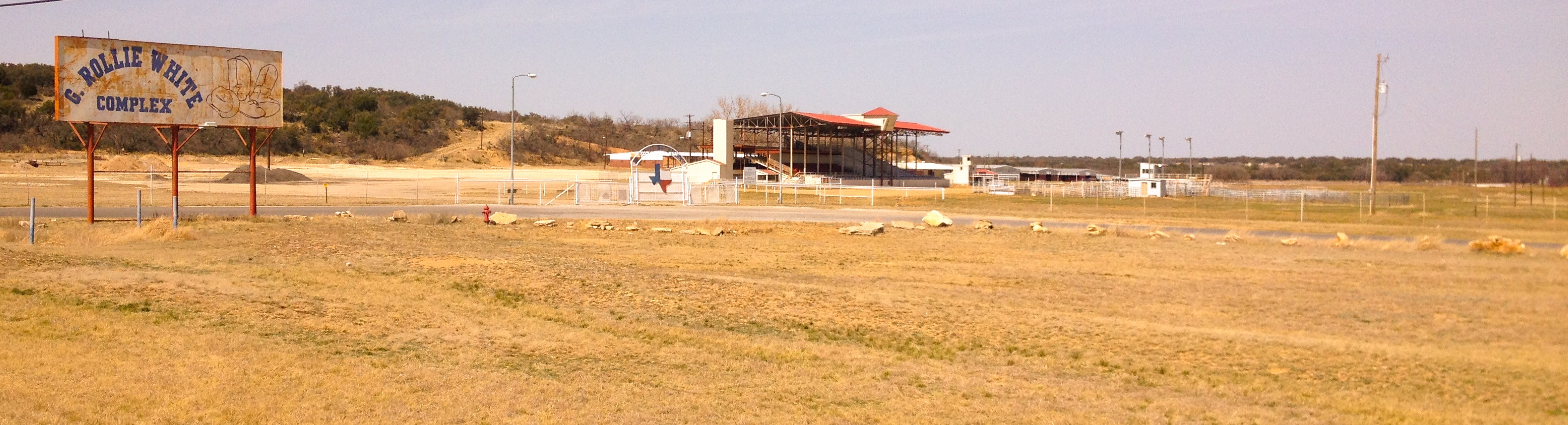 G. Rollie White Complex in Brady, Texas. Home to the abandoned G. Rollie White Downs.